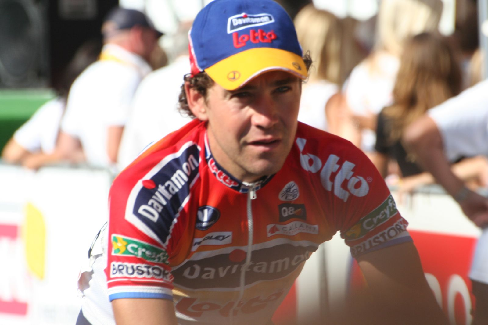 Picture of Leon van Bon from the Netherlands. The picture is shot at Tour of Denmark, Stage 3 in Odense.